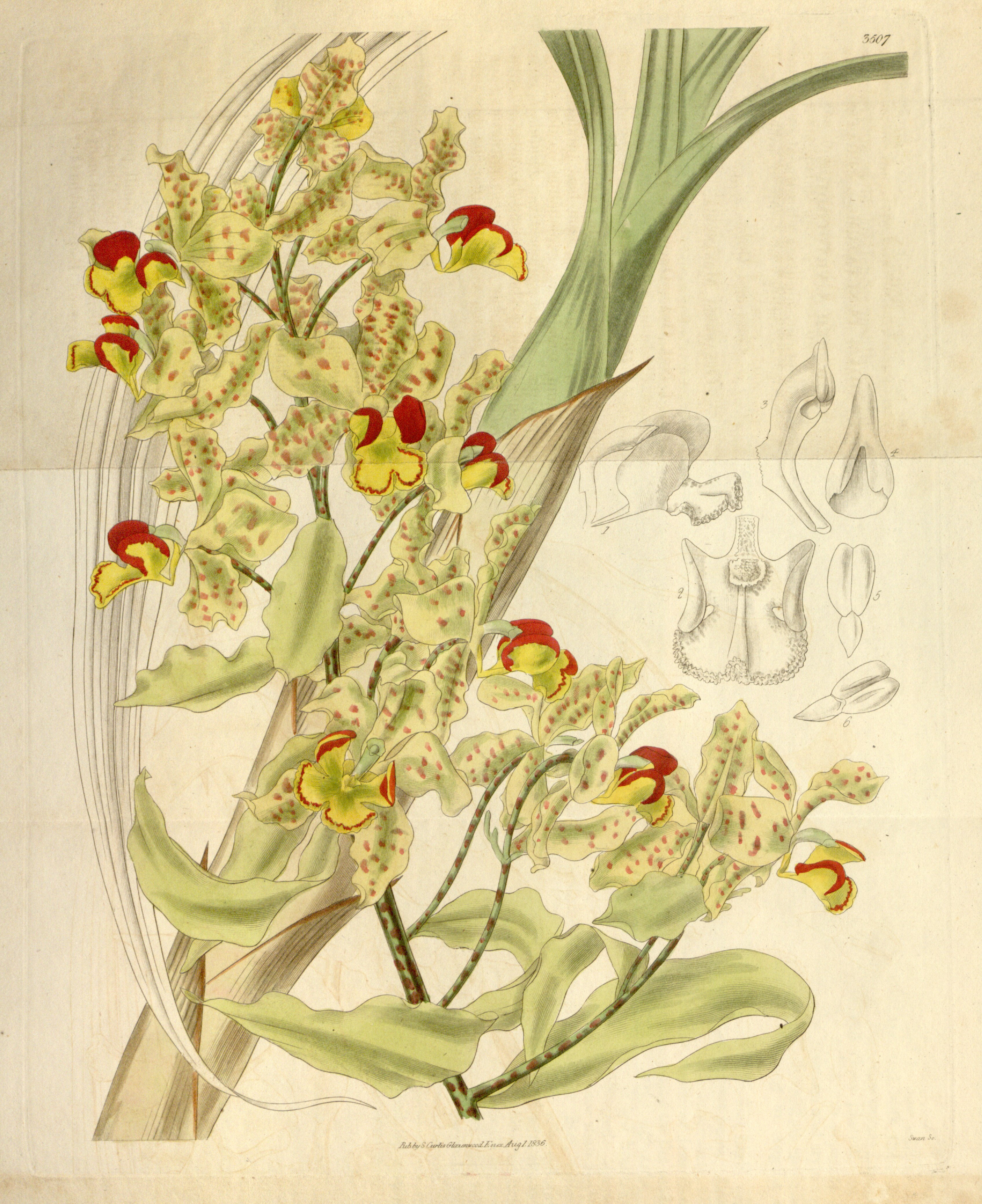 Illustration of Cyrtopodium punctatum